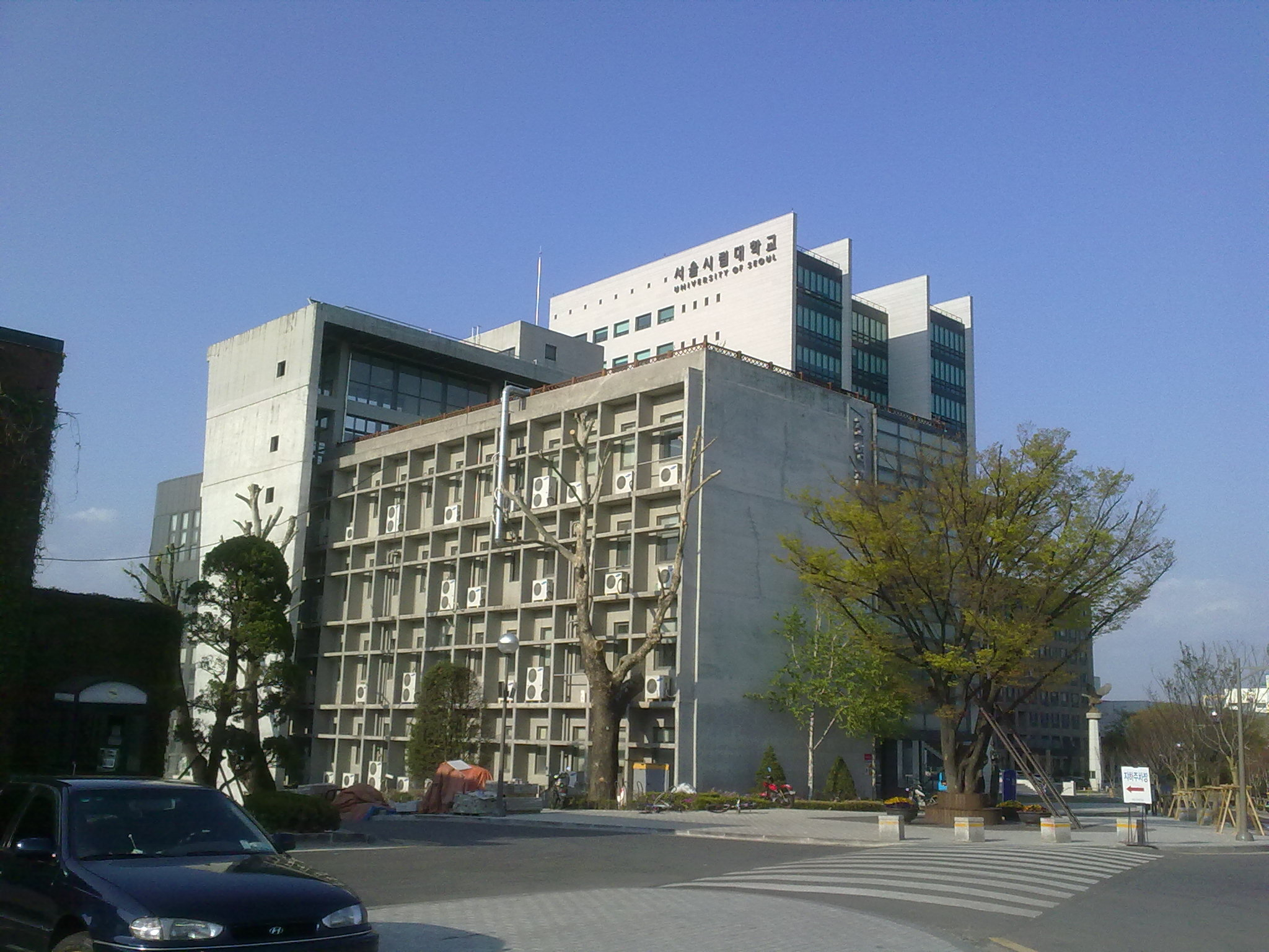 Design and Sculpture Building (front) and Future Building (taller building behind)